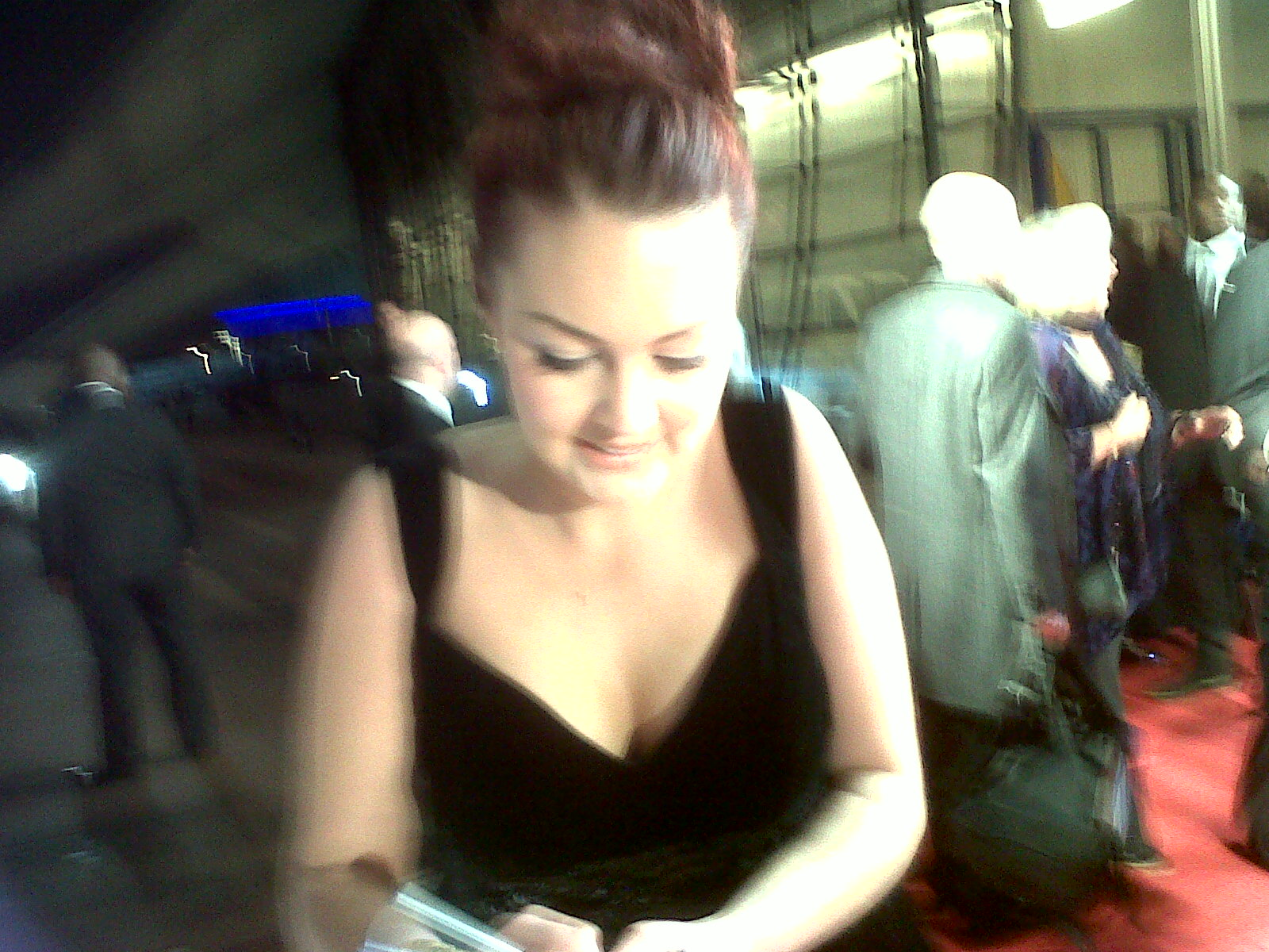 Lacey Turner at the 2011 National Television Awards